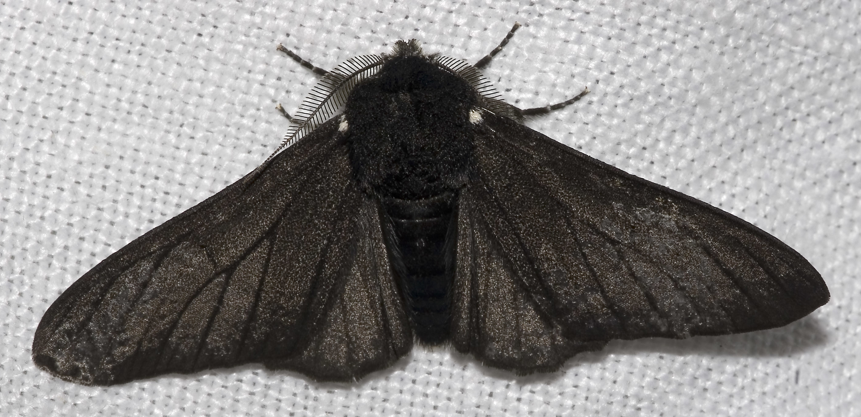 Peppered Moth, Biston betularia f. carbonaria (Linnaeus, 1758)